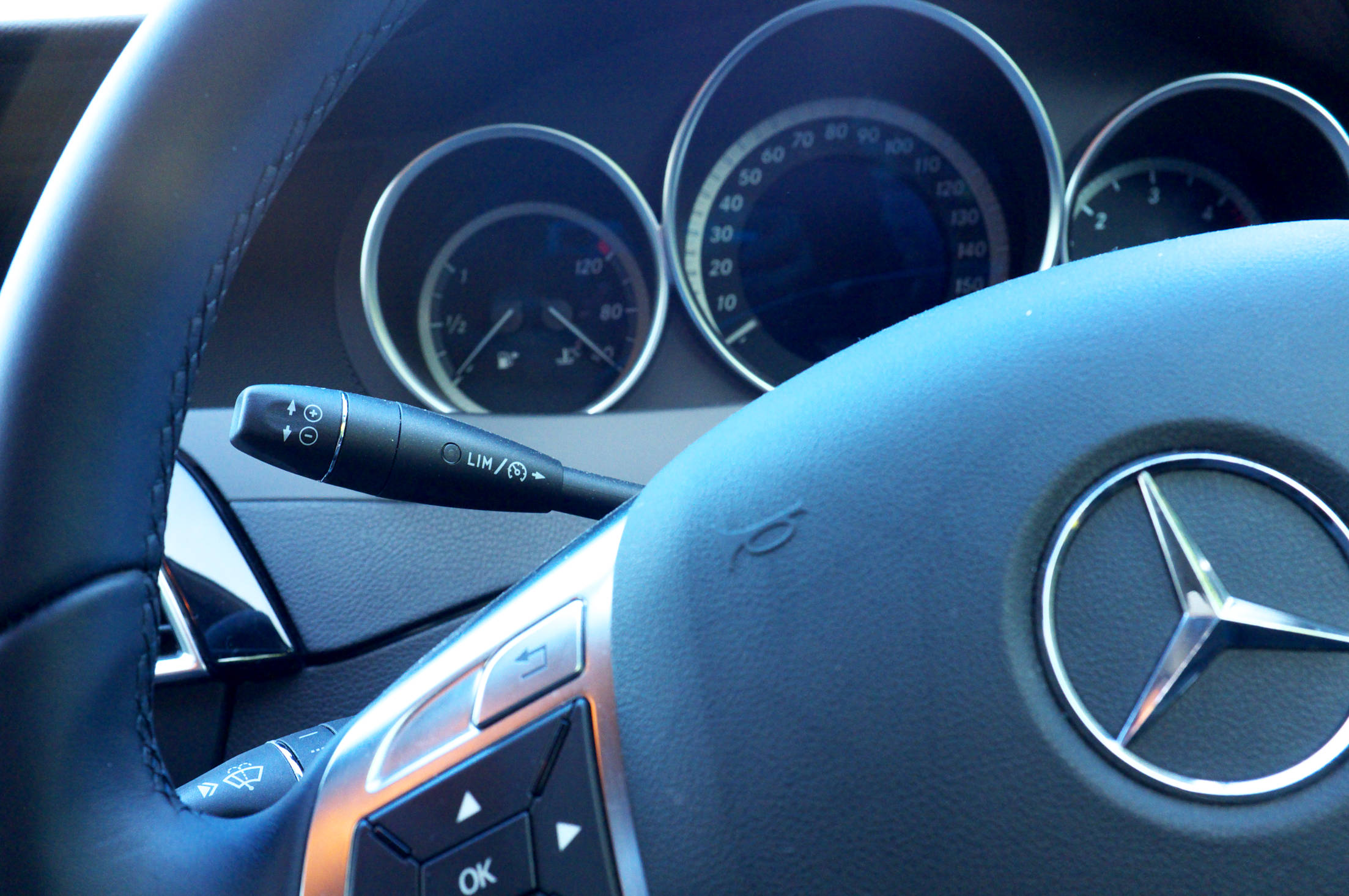 Cruise control in Mercedes C220.